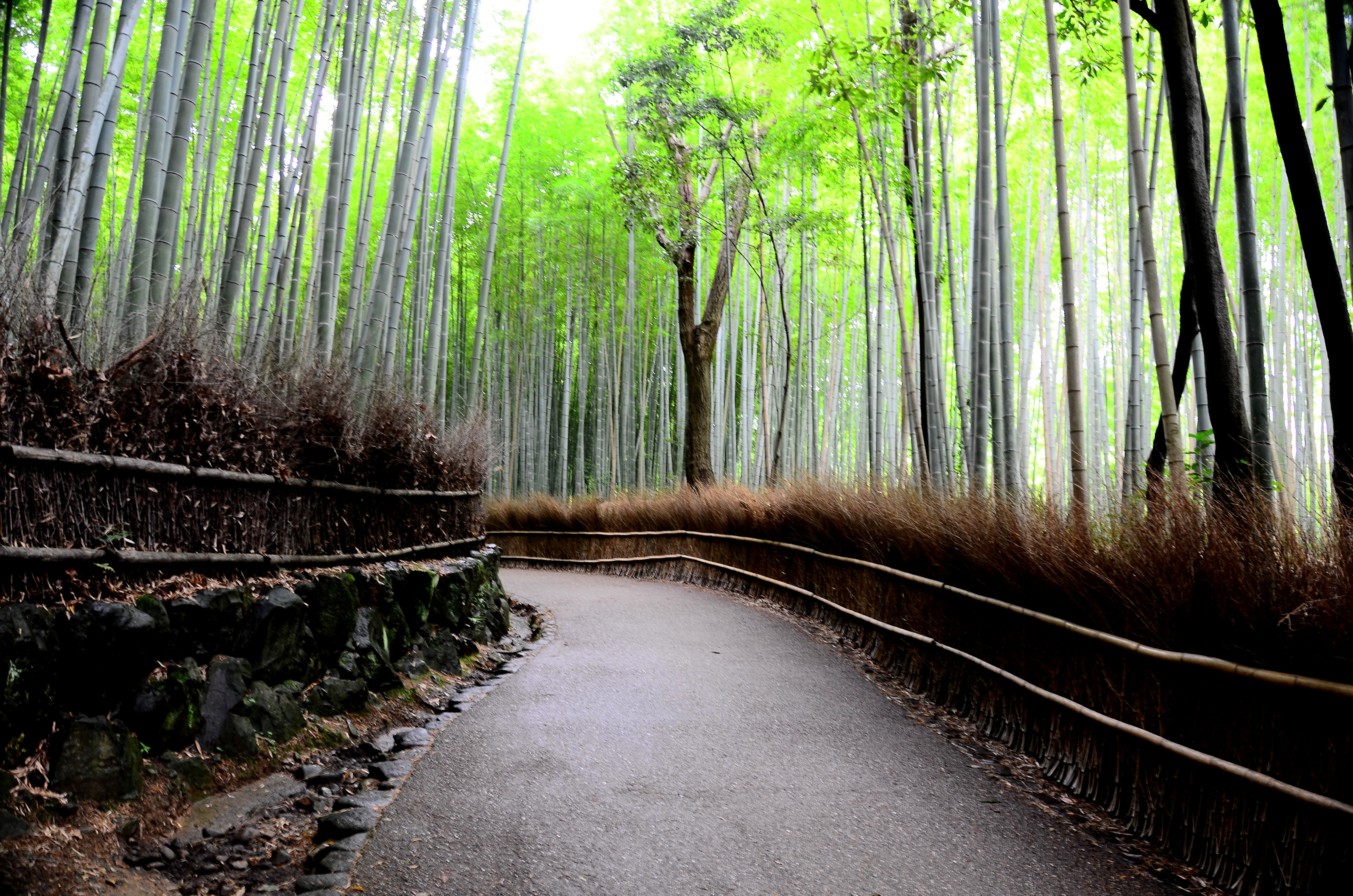 Bamboo forest in Sagano, Kyoto, Japan